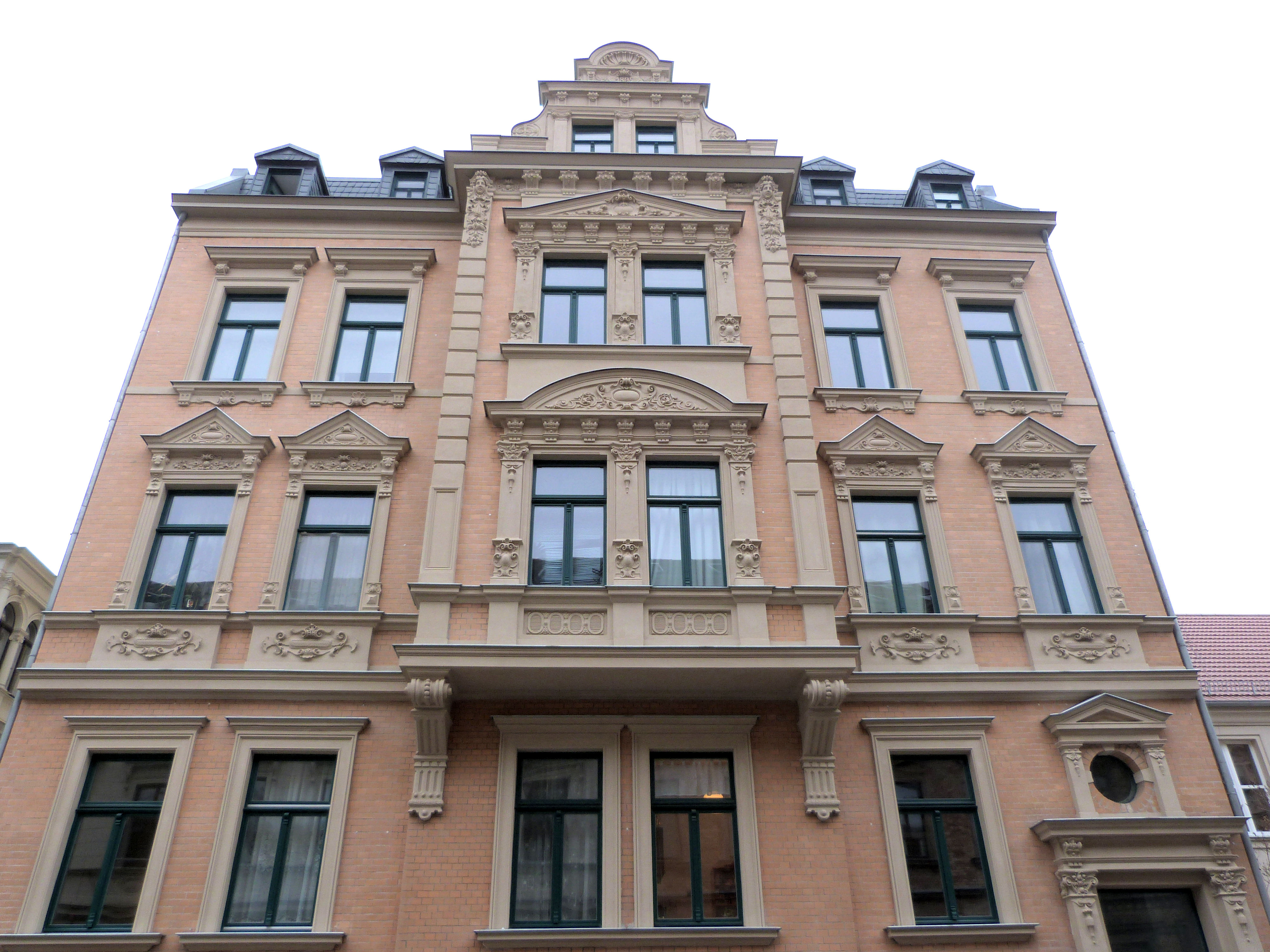 House No. 13 Weidenplan in Halle (Saale)